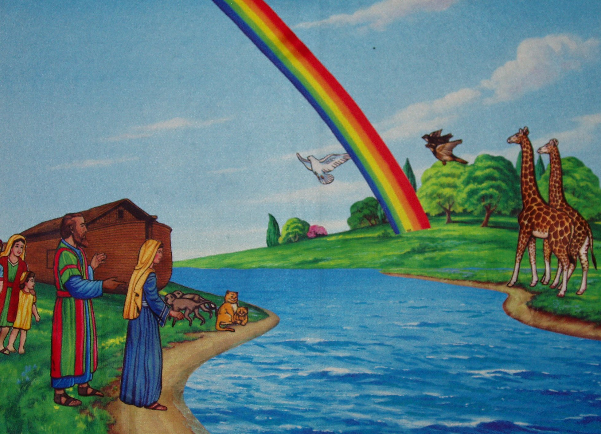 Scene from the storu aboat Noah, illustrated by Flannelgraph Norsk (nynorsk): Scene frå forteljinga om Noah, illustrert med flanellograf